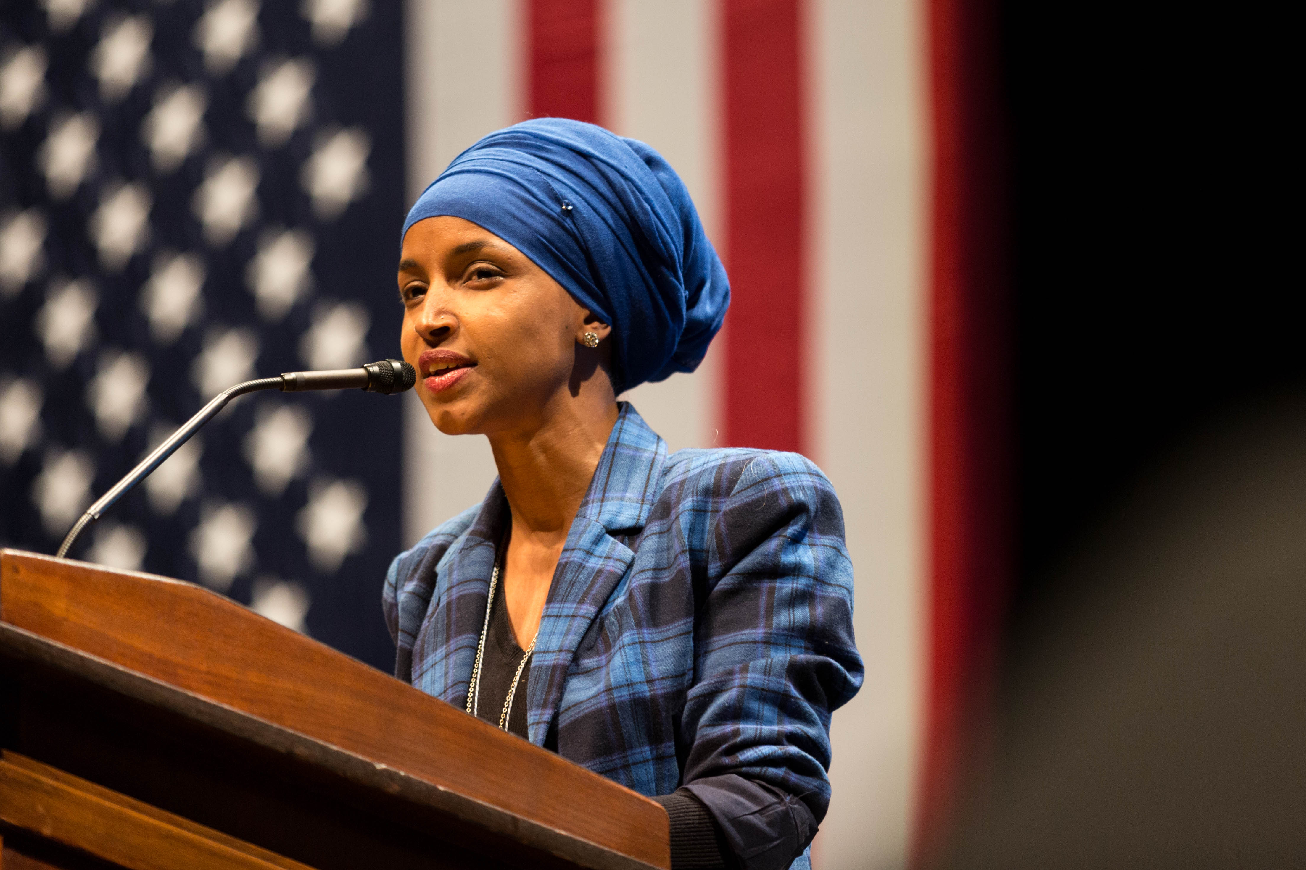 Somali American candidate for Minnesota State Representative, Ilhan Omar speaking at a Hillary for MN event at the U of MN